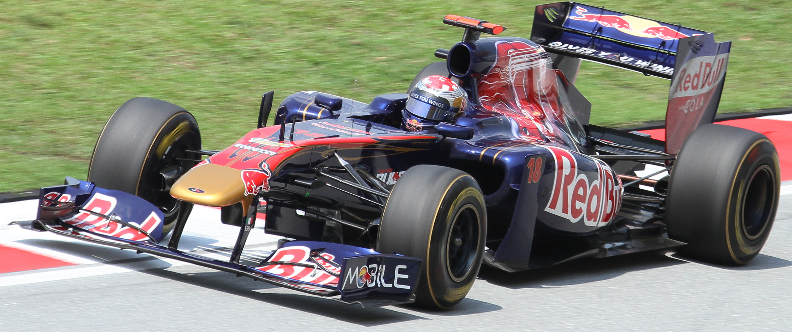 Formula One 2011 Rd.2 Malaysian GP: Sébastien Buemi (Toro Rosso) during the first practice session on Friday.